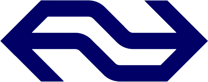 Logo of NS